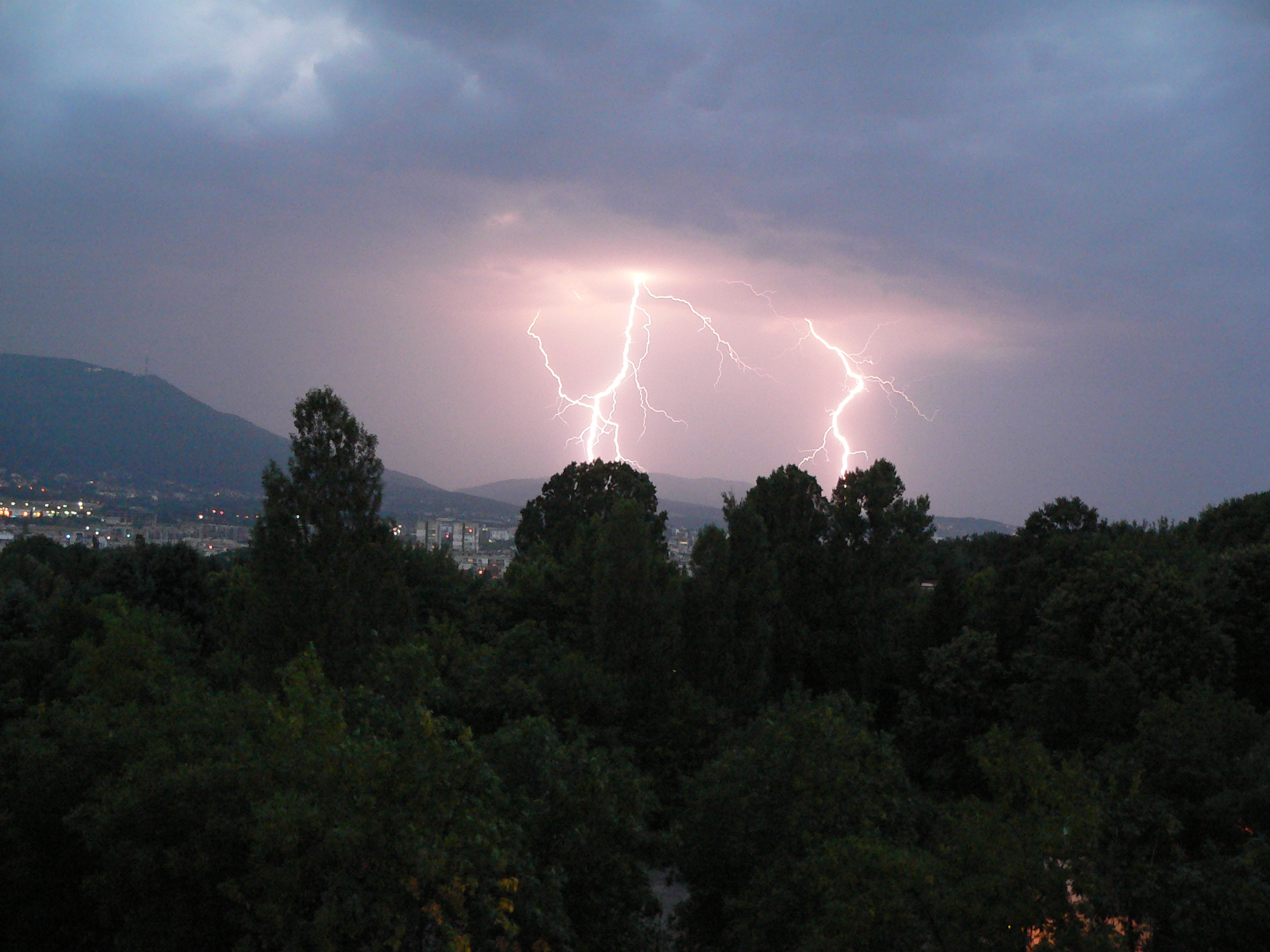 Lightning over Sofia, Bulgaria